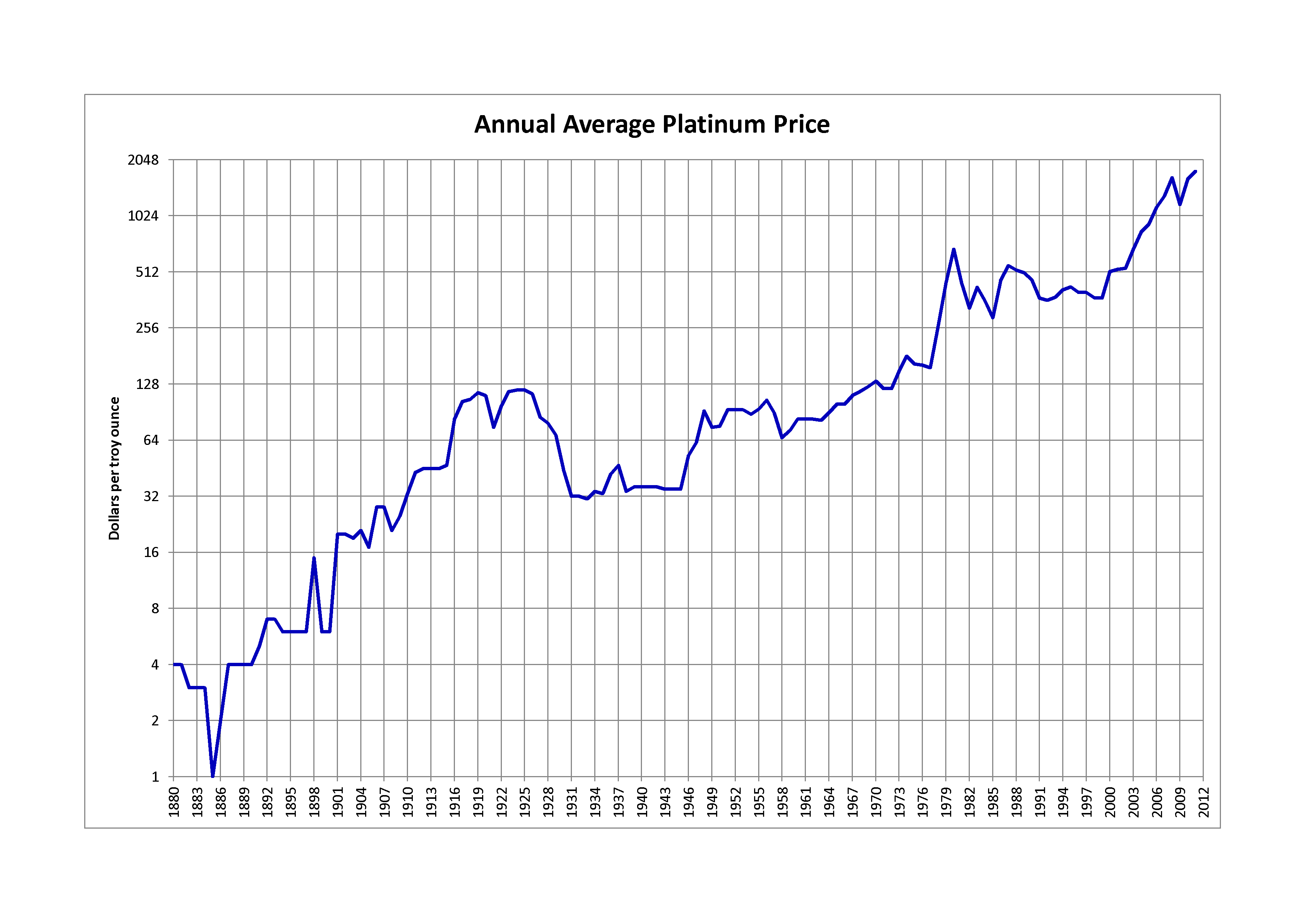 Platinum price from 1880 to 2011 (annual average in dollars per troy ounce)